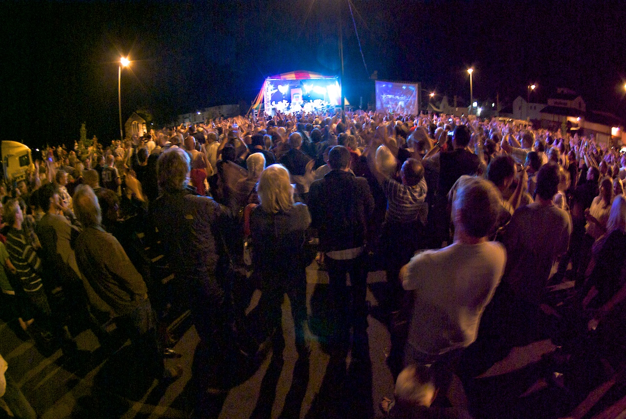 The UK Pink Floyd Experience performing at the Monmouth Festival. Yes, close your eyes and they do sound like the real thing...and they do gigs unlike the real thing. Left to right: Louise Beadle, Mike Bollard, Marie McNally, James Archer, Paul Andrews, David Power, Neil Smallman, Dave Woodfield (with apologies to Lindsay Martin who is just out of shot on the left).